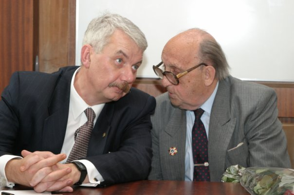 Dr. Sergey Rogov (left) and Dr. Georgy Arbatov - heads of the Institute of US and Canada Studies of the Russian Academy of Sciences С.М.Рогов и Г.А.Арбатов - директора Института США и Канады РАН